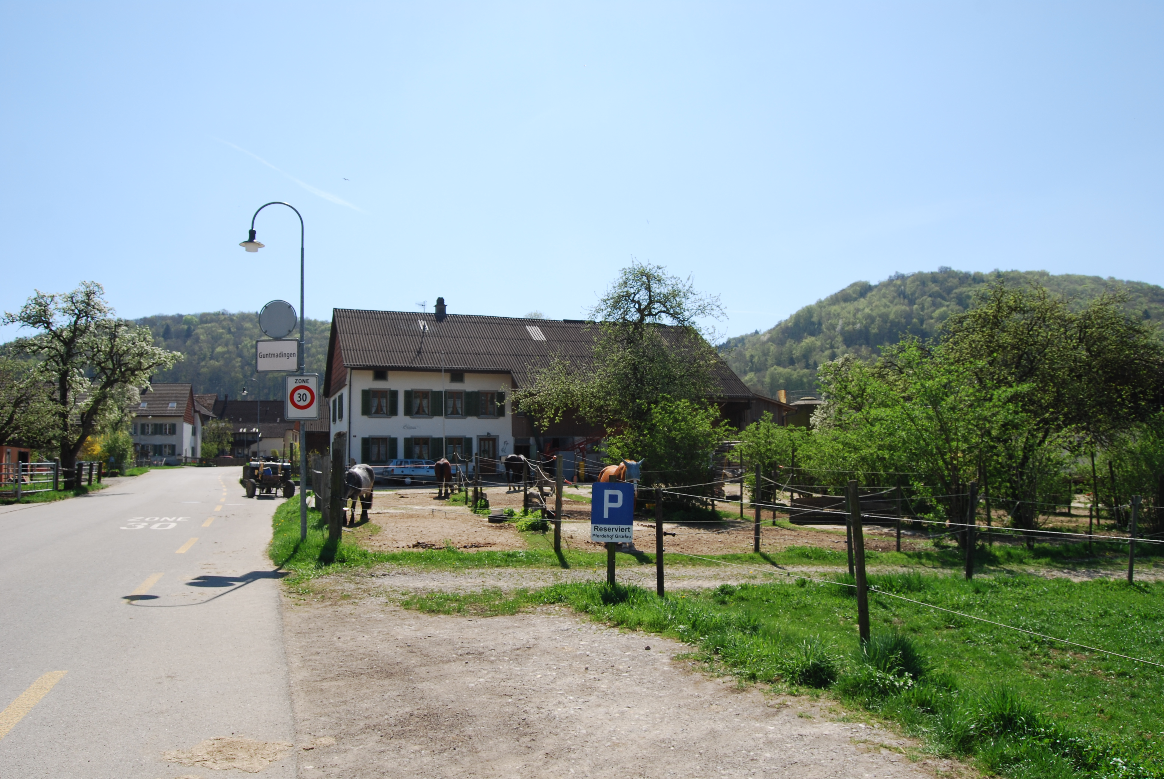 Guntmadingen, canton of Schaffhausen, Switzerland